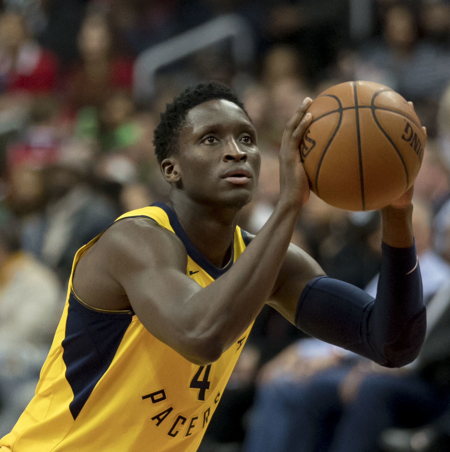 Pacers at Wizards 3/17/18